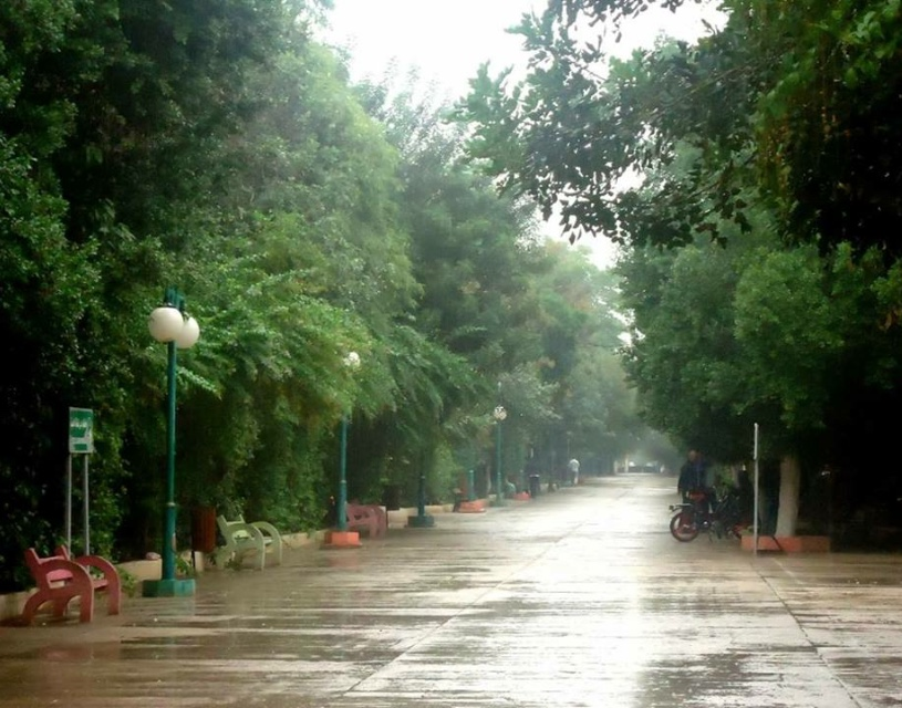 Biskra parc